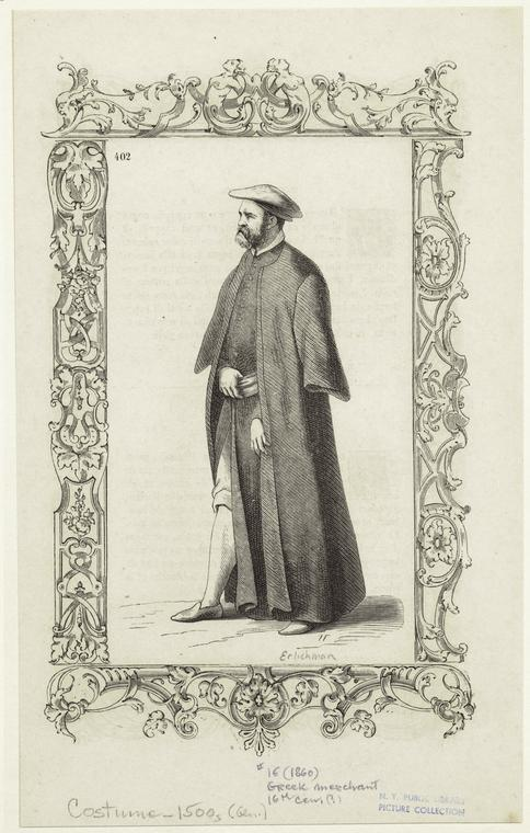 A Greek merchant of the 16th century. From Costumes anciens et modernes : habiti antichi e moderni di tutto il mondo. Vecellio, Cesare (ca. 1521-1601), Author.